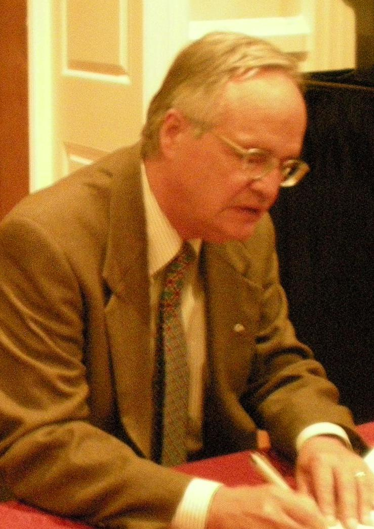 James Gustave Speth. Event "The Carbon Age: From Crisis to Stability" at the Carnegie Institution for Science.